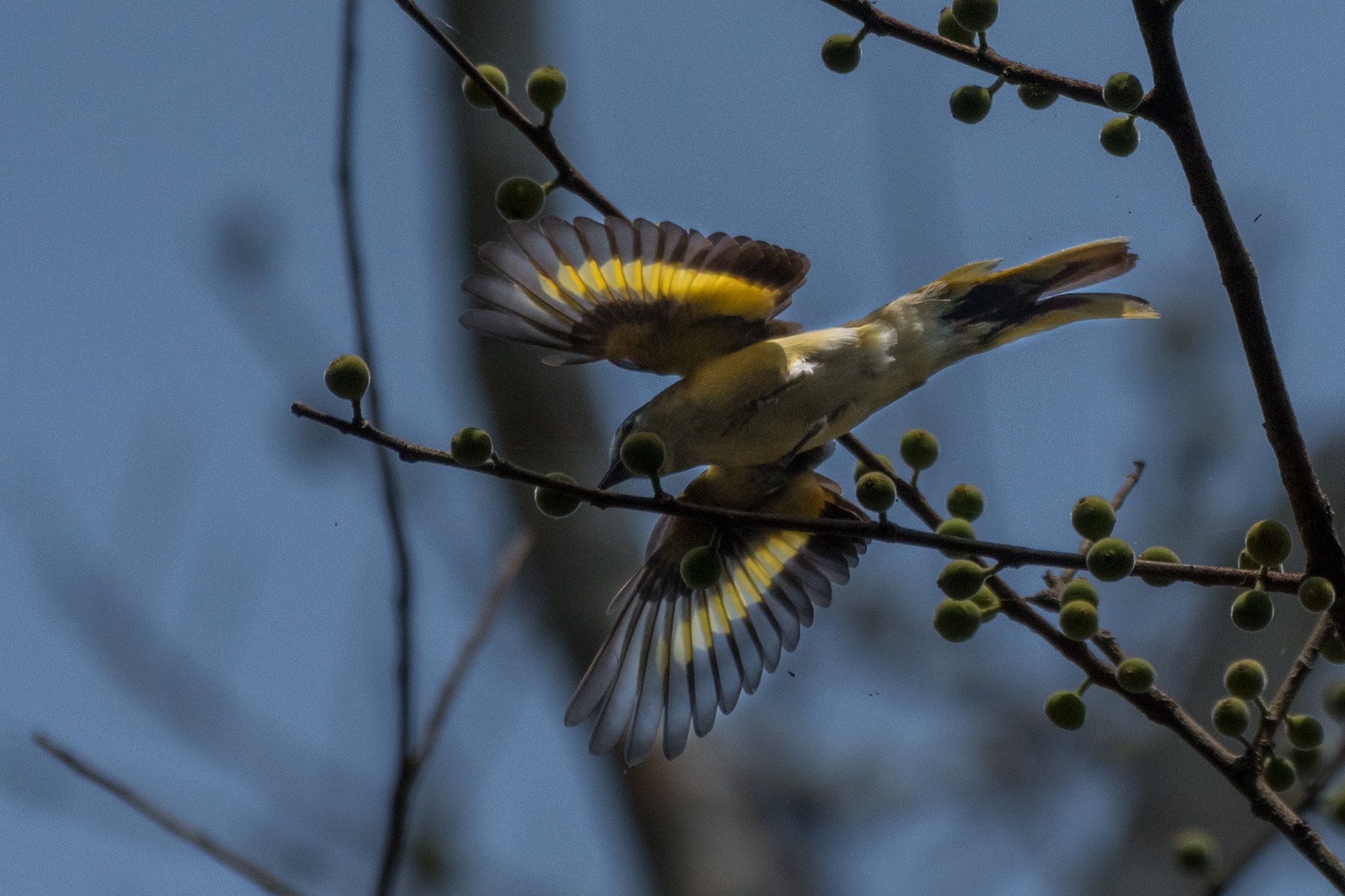 Rosy Minivet female, from Maredumilli forest, Andhra Pradesh, India. Photographer: Prasanna Kumar Mamidala